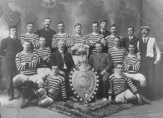 The Calgary Callies, 1907 champions of the People Shield, posing with the emblem.